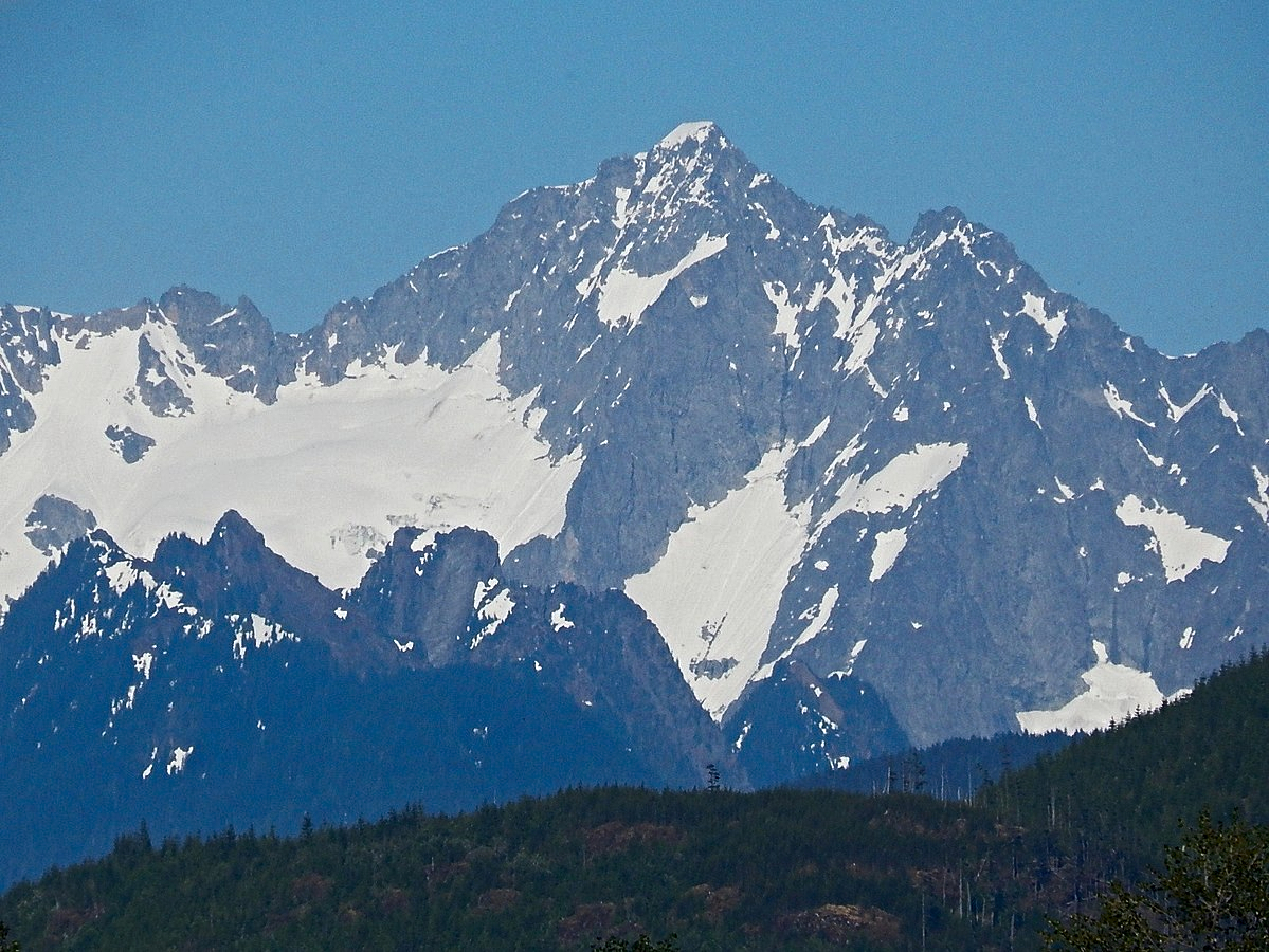 Eldorado Peak seen with long lens from Highway 20